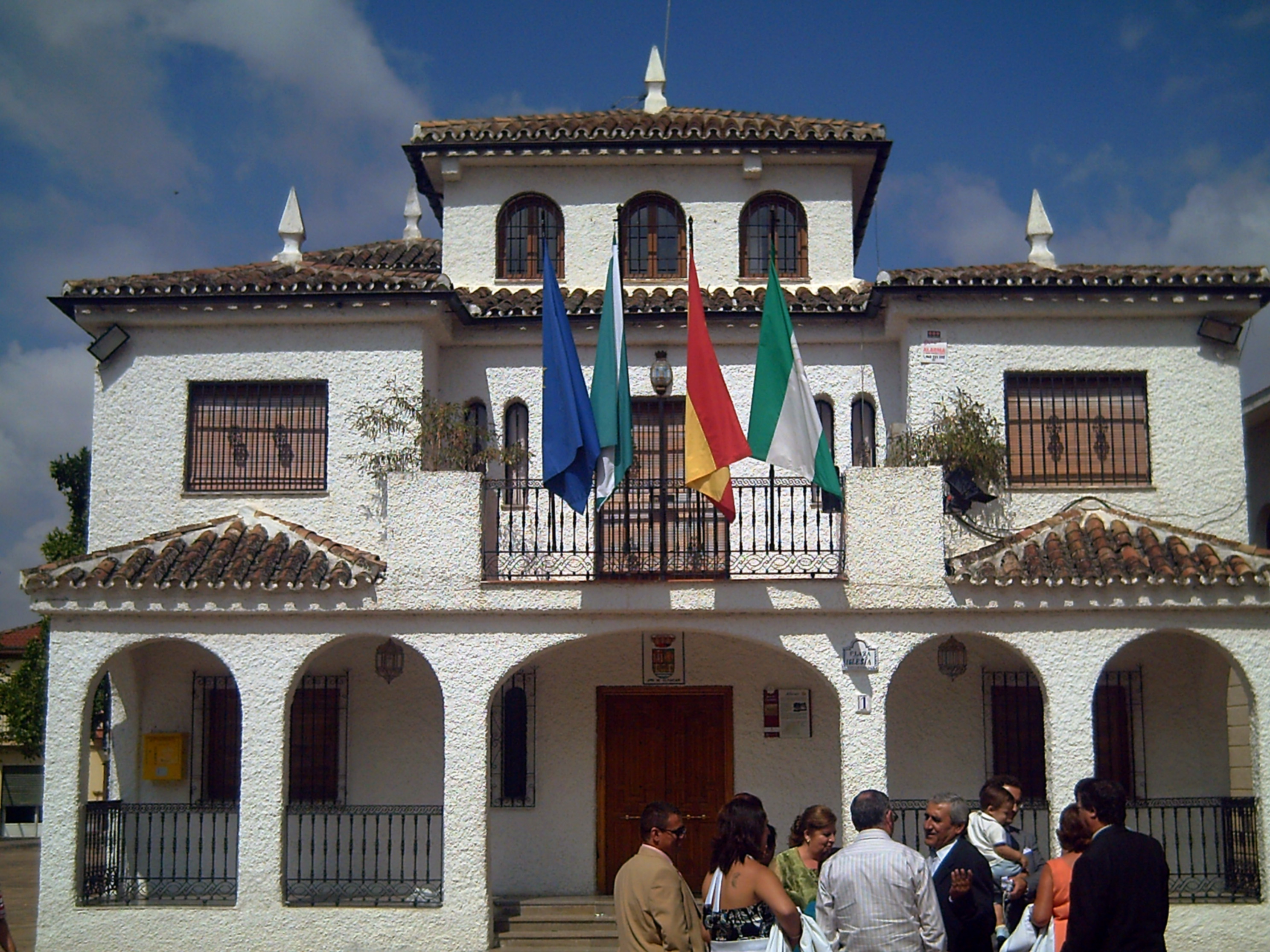 Alfacar City Hall